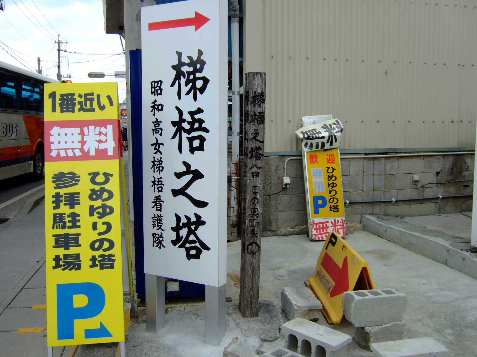 The entrance of Deigo Monument in Okinawa (Showa girl's high school)